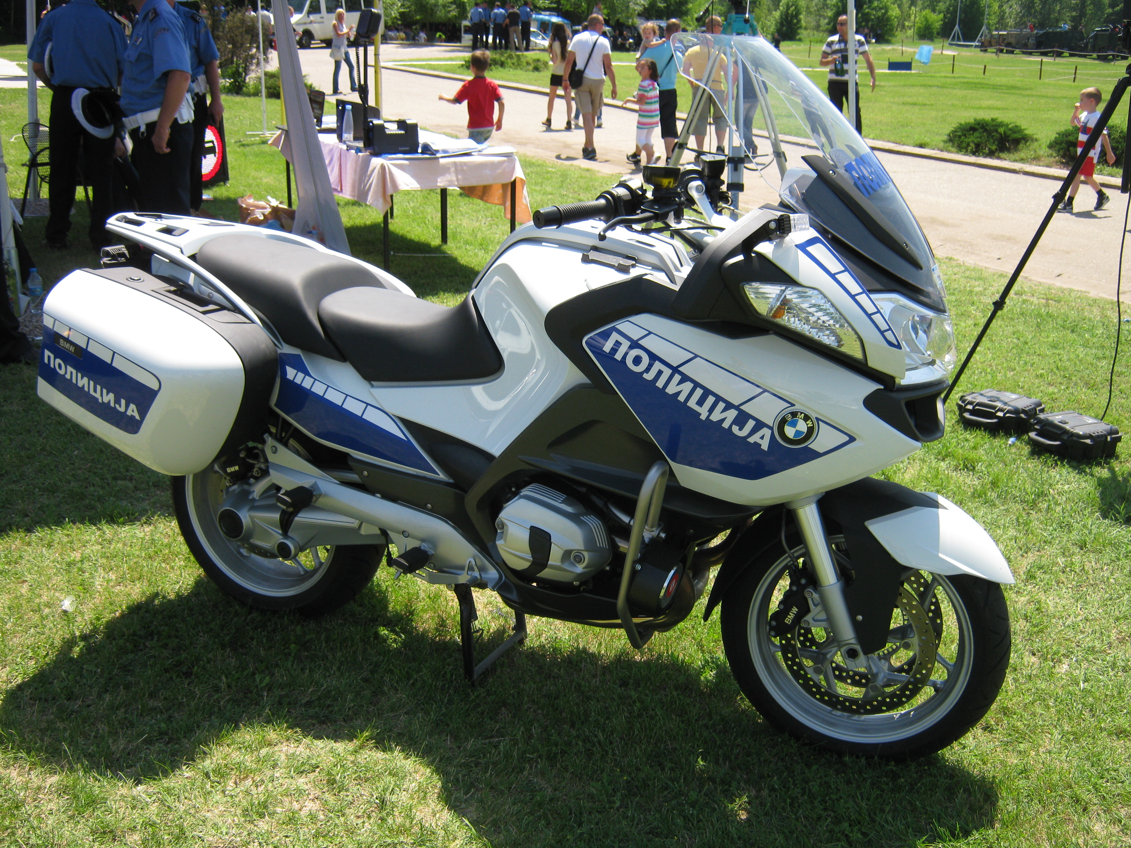 BMW motorcycle of Serbian Traffic Police